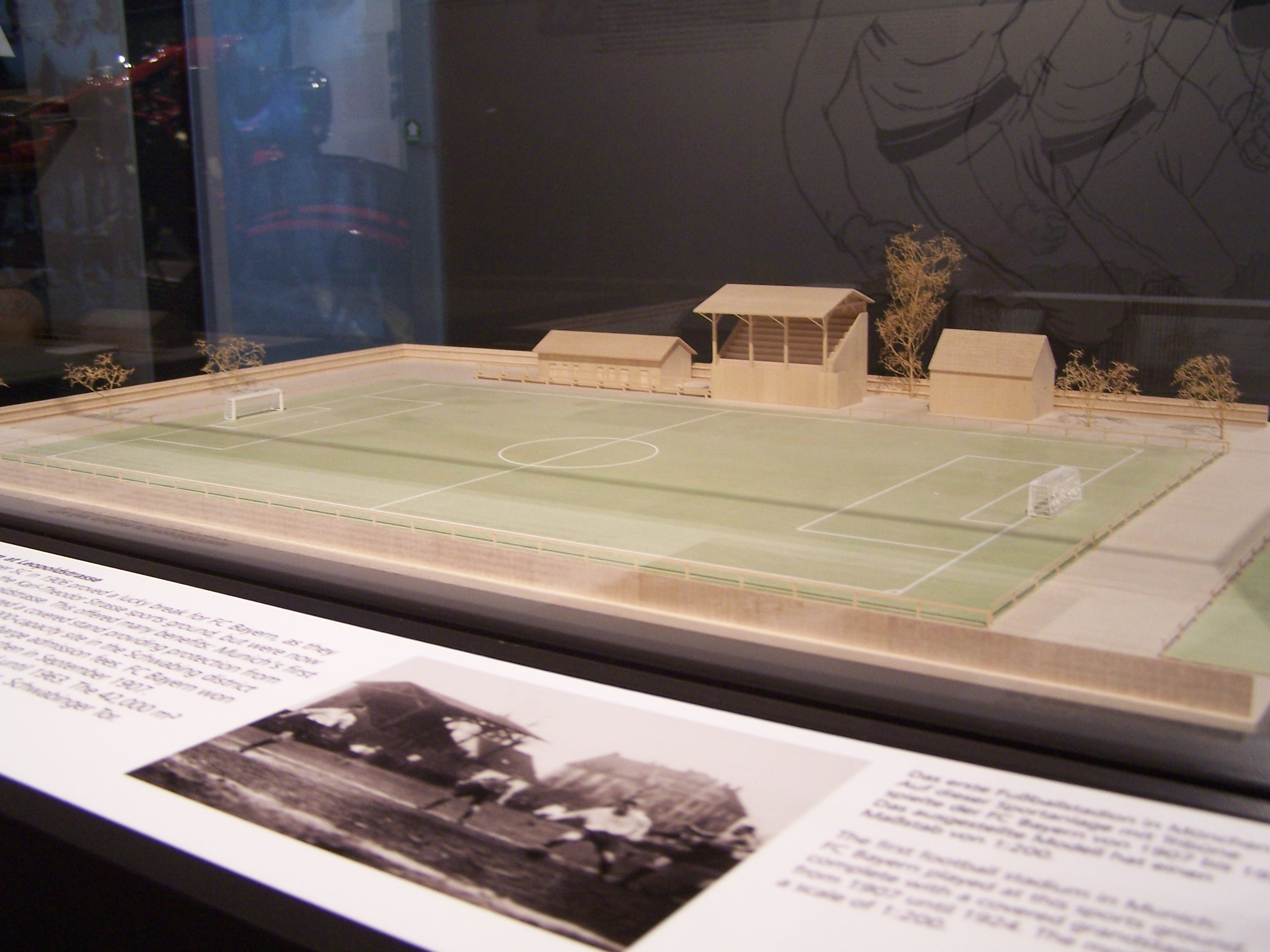 This is a picture taken in the FCB Erlebniswelt. It shows a model of Bayern's early stadium at Leopoldstrasse.